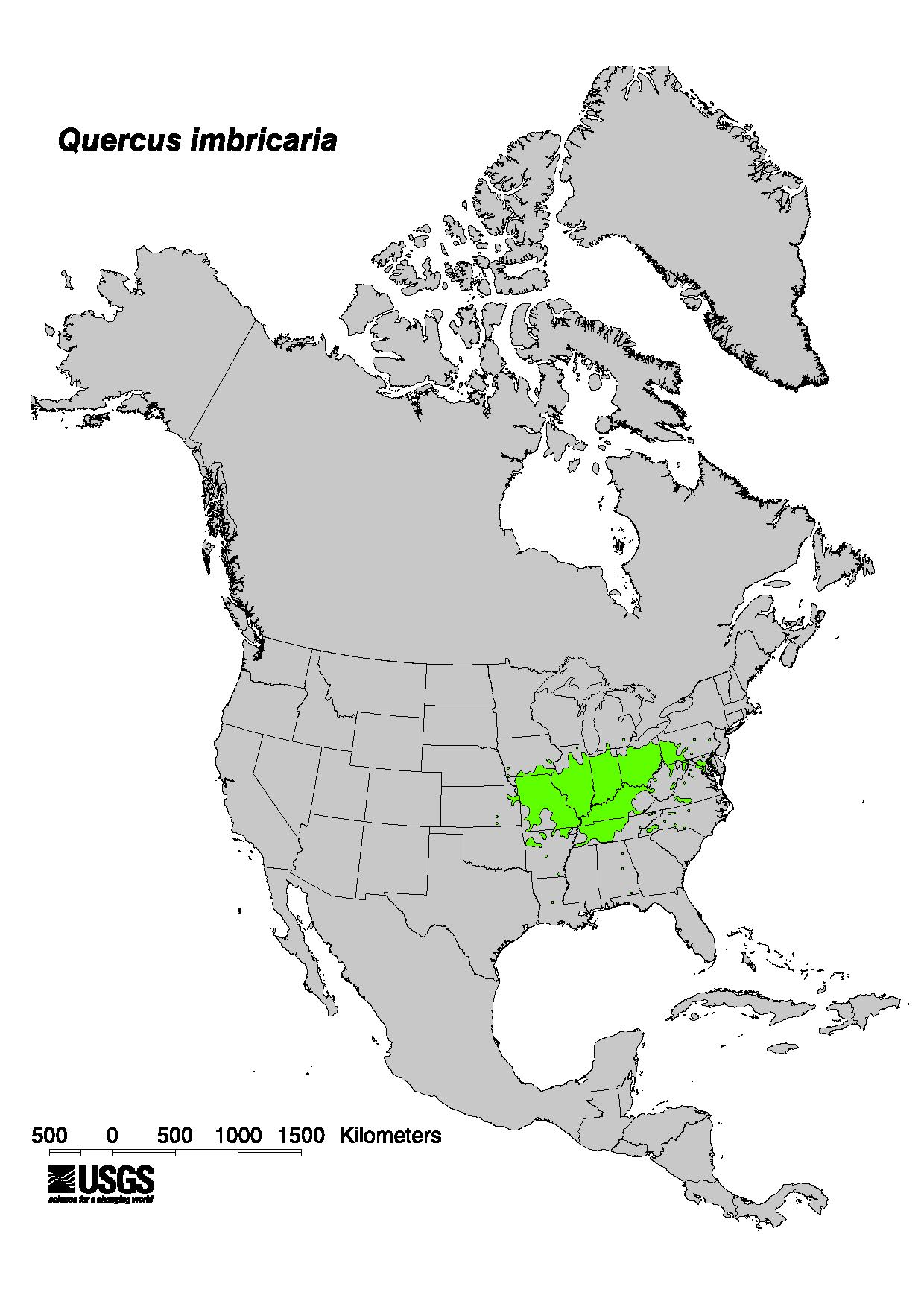 Quercus imbricaria Range Map Digital representation of "Atlas of United States Trees" by Elbert L. Little, Jr. 1999. U.S. Geological Survey. [1]